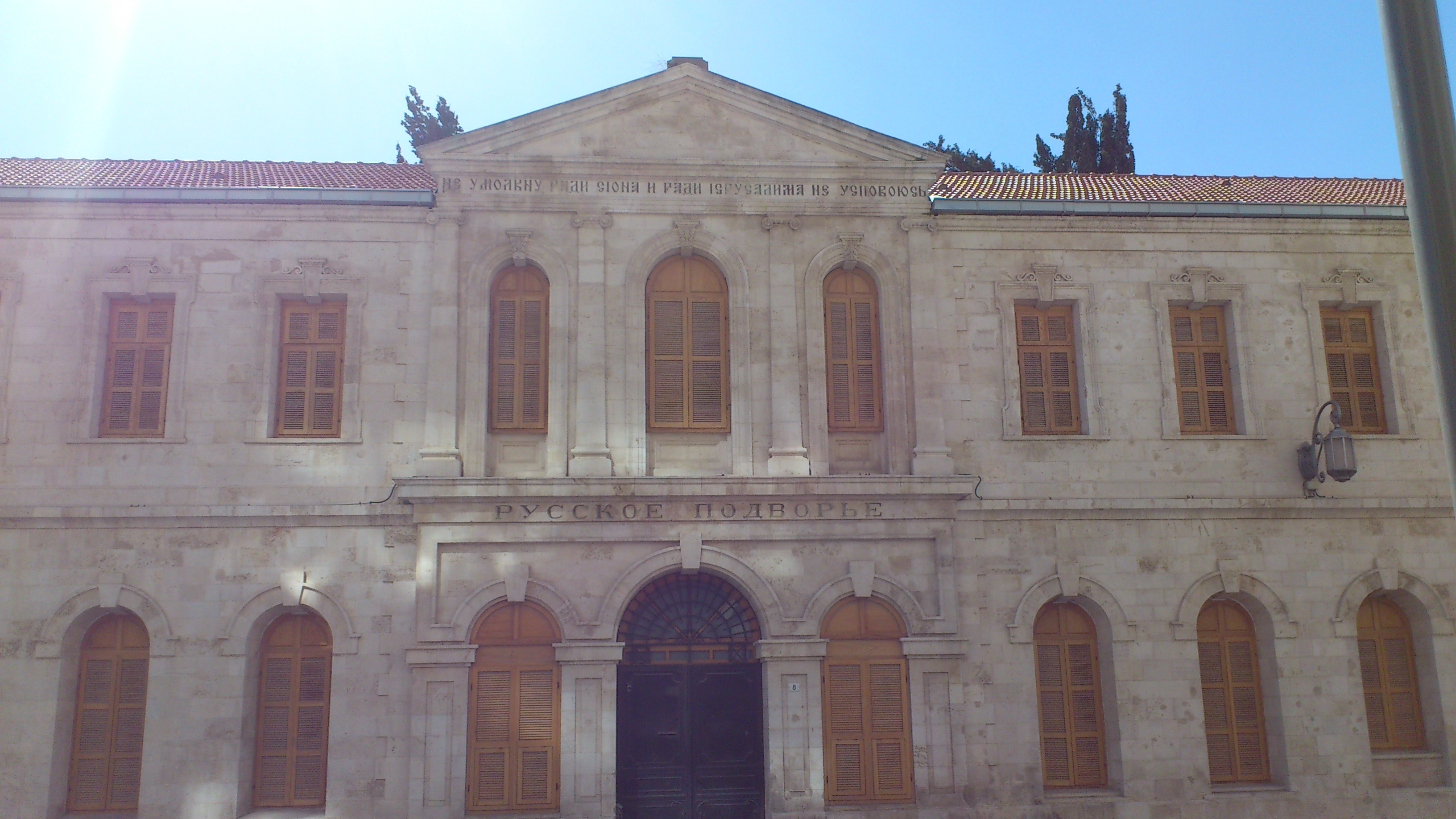 Sergei's Court